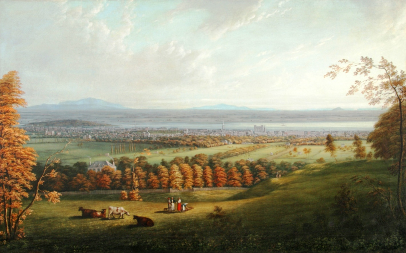 Painting, Montreal from the Mountain, Possibly showing William McGillivray's Chateau Saint Antoine, By James Duncan (1806-1881), 1831, Oil on canvas, 150.5 x 241.9 cm